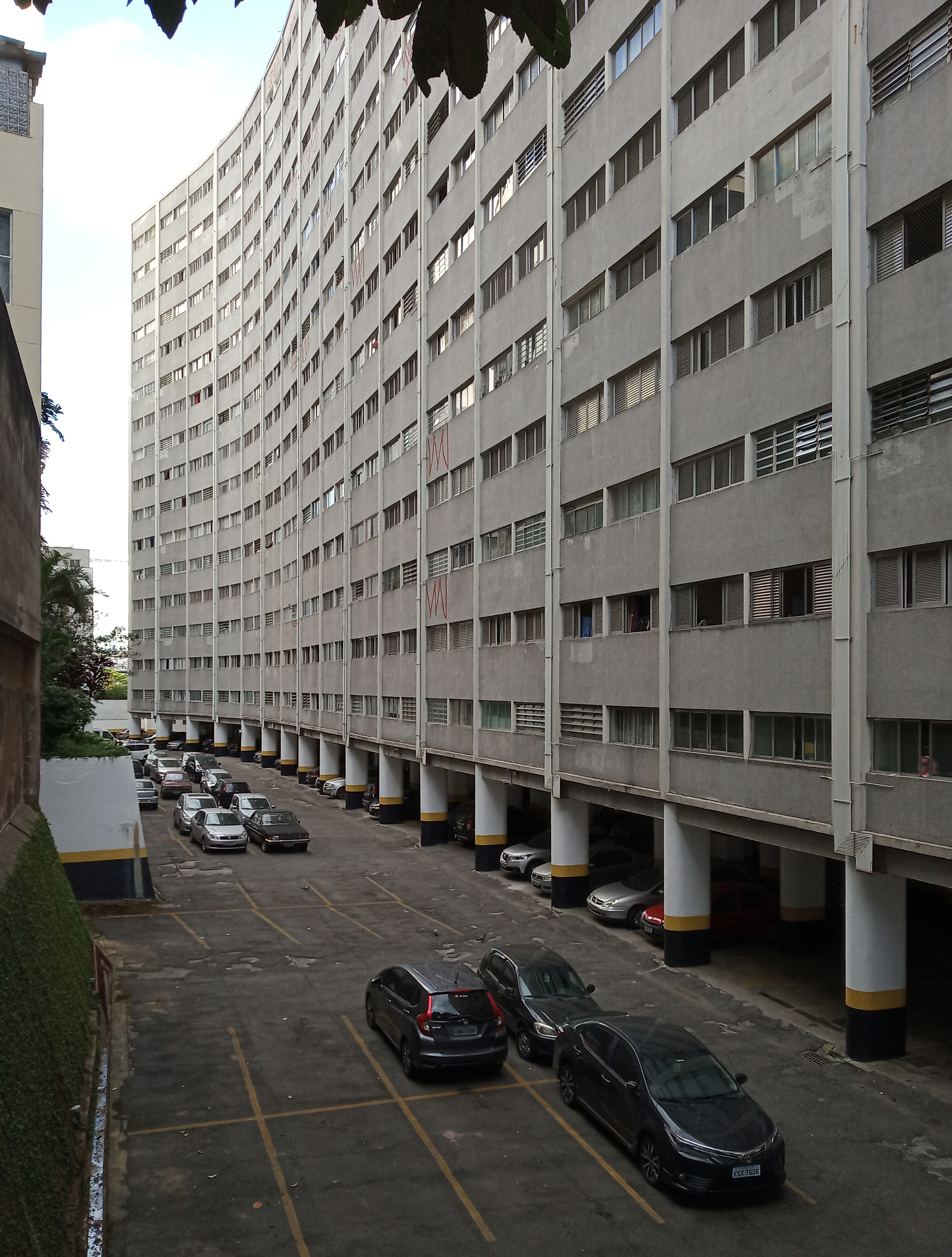 Edifício Japurá - Estacionamento.